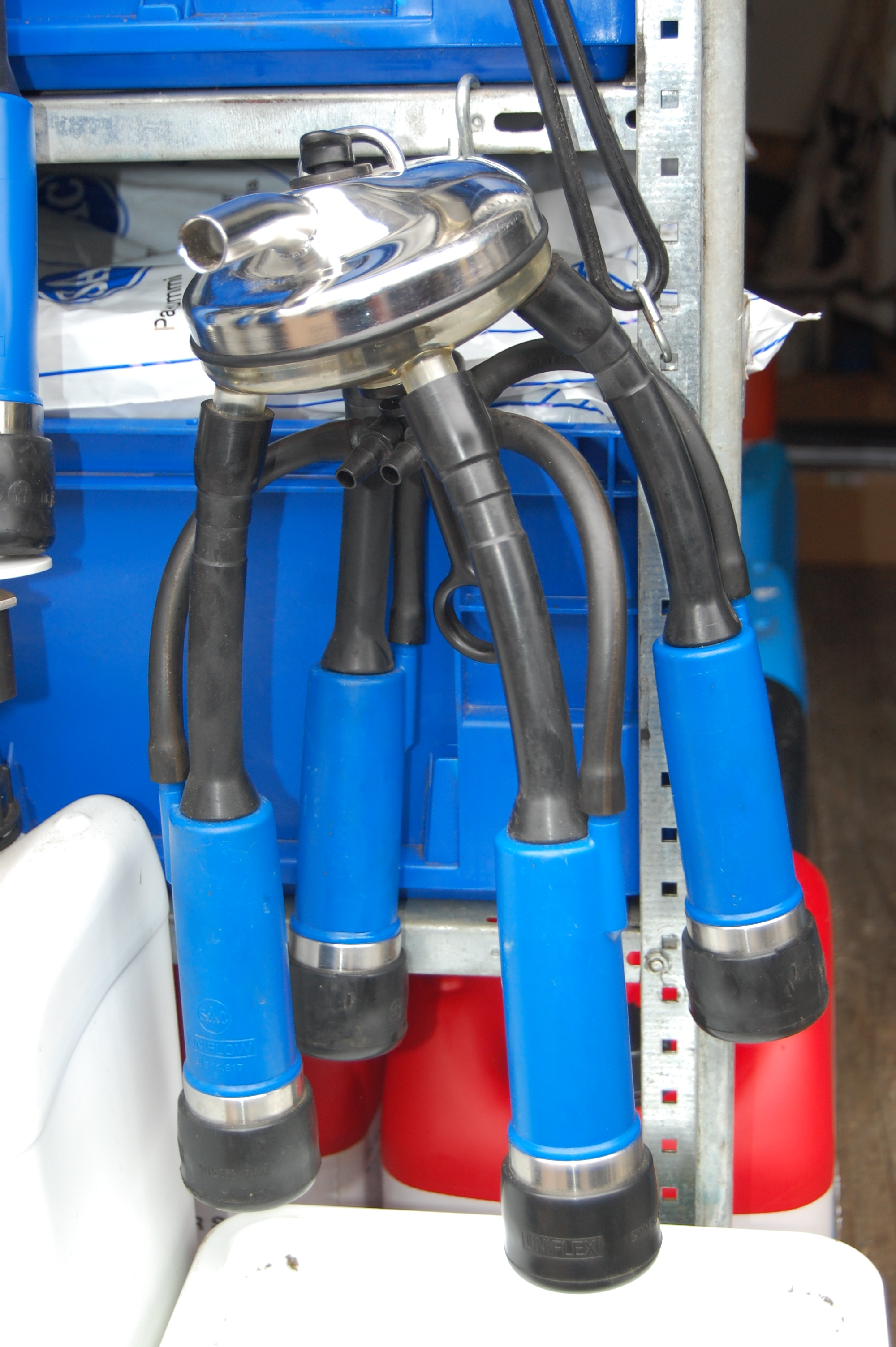 Tools for cow milking on yearly market in Woerden